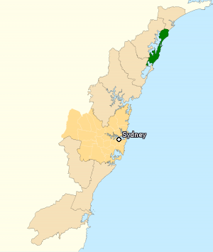 This image incorporates data that is: © Commonwealth of Australia (Australian Electoral Commission) 2009 Division of Shortland 2010